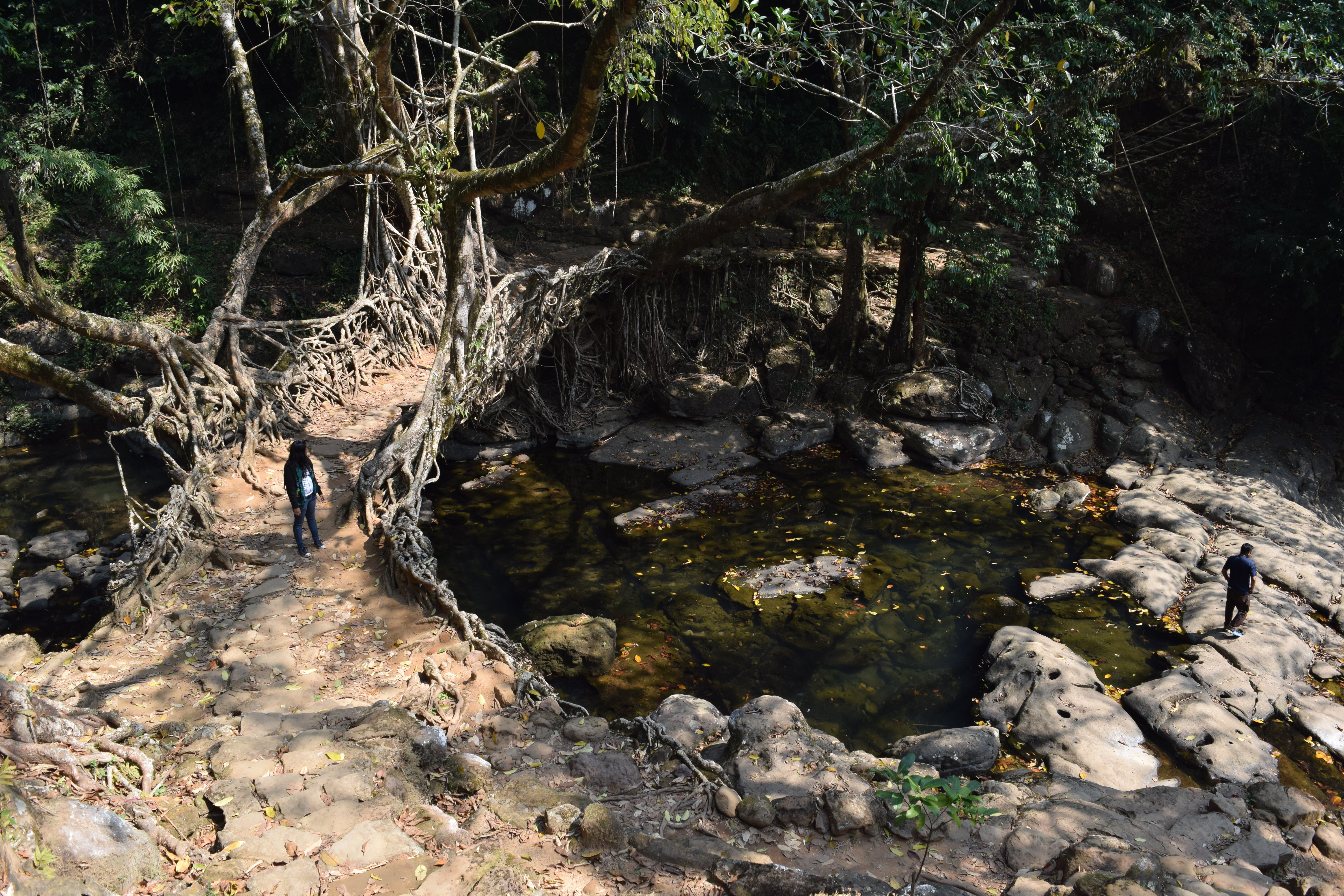 Top view from Living Root Bridge in Mawlynnong. Living root bridge near the village of Mawlynnong, Meghalaya. It is sometimes called as the cleanest village in Asia. Living root bridges are a spectacular piece of environmental architecture. Living root bridges are a form of tree shaping common in the southern part of the Northeast Indian state of Meghalaya. They are handmade from the aerial roots of living banyan fig trees, such as Ficus elastica by the Khasi people and War Jaintia peoples of the mountainous terrain along the southern part of the Shillong Plateau. The pliable tree roots are made to grow through betel tree trunks which have been placed across rivers and streams until the figs' roots attach themselves to the other side. Sticks, stones, and other objects are used to stabilize the growing bridge This process can take up to 15 years to complete. The useful lifespan of any given living root bridge is variable, but it is thought that, under ideal conditions, they can in principle last for many hundreds of years. As long as the tree they are formed from remains healthy, they naturally self-renew and self-strengthen as their component roots grow thicker.